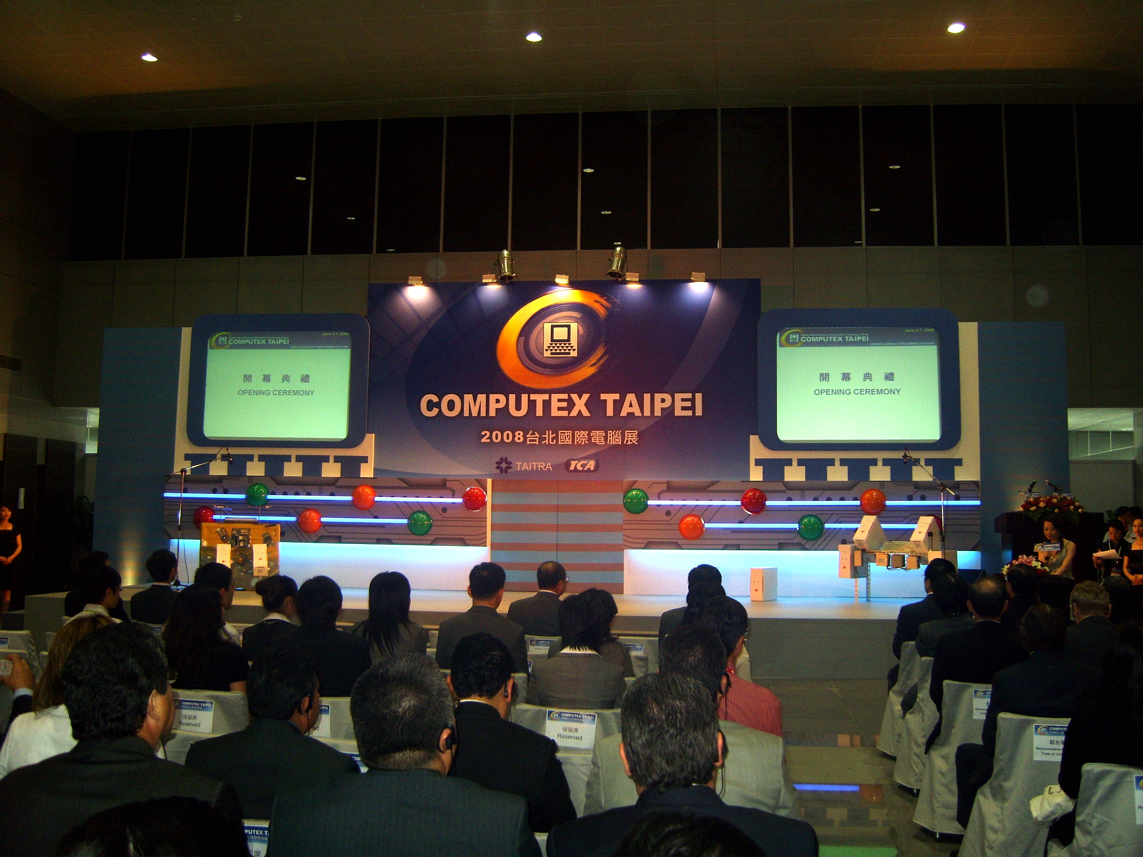 2008 COMPUTEX: Opening ceremony stage.中文（台灣）: 2008台北國際電腦展開幕典禮舞台。